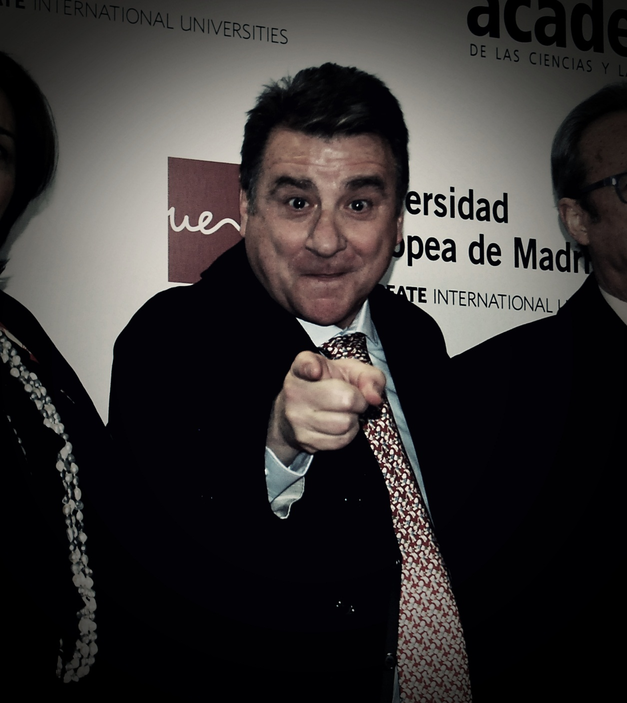 El humorista español Manolo Royo